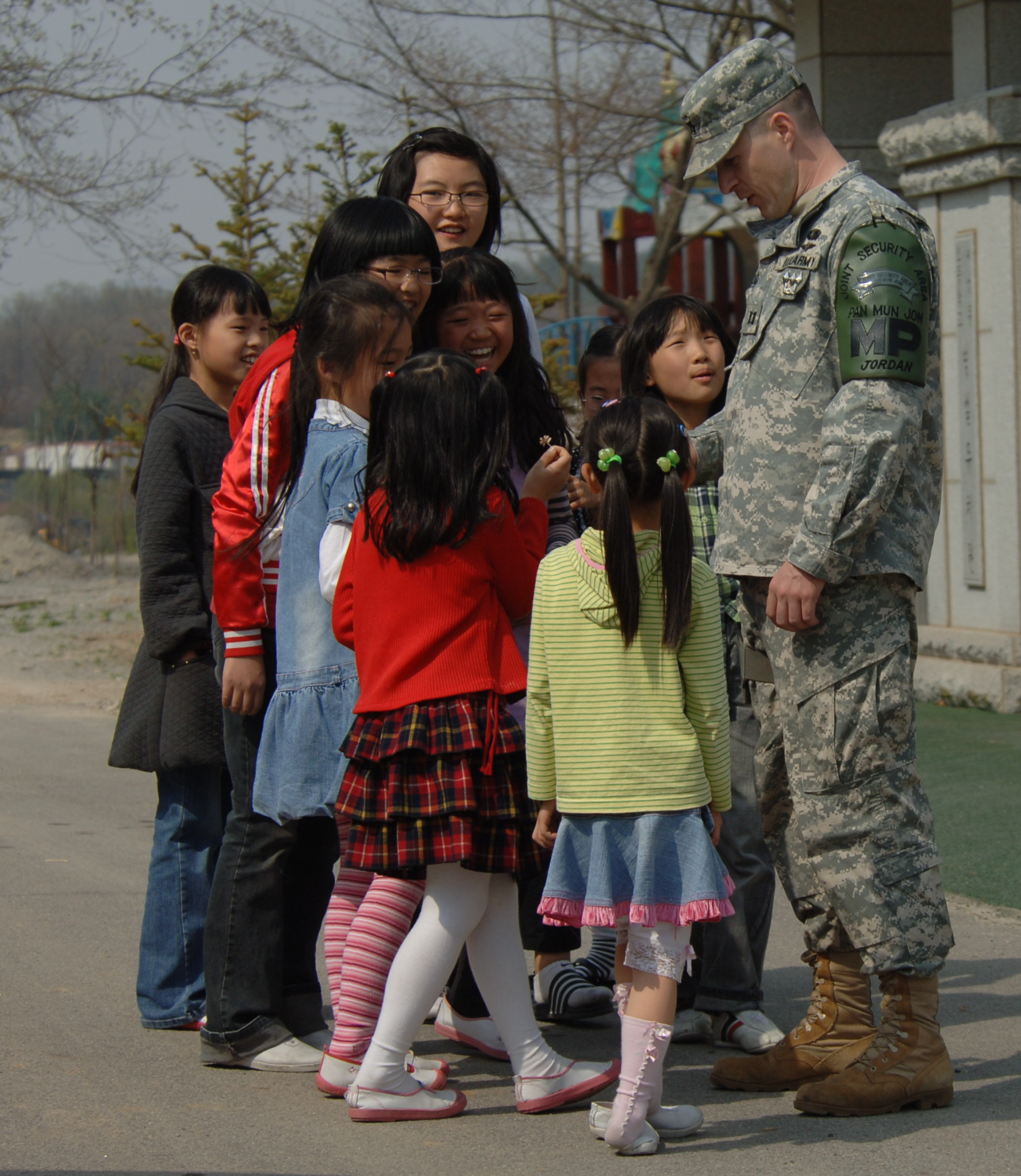 Captain Jordan, a U.S. Army officer, greets students from Tae Sung Dong Elementary School inside the Korean Demilitarized Zone.